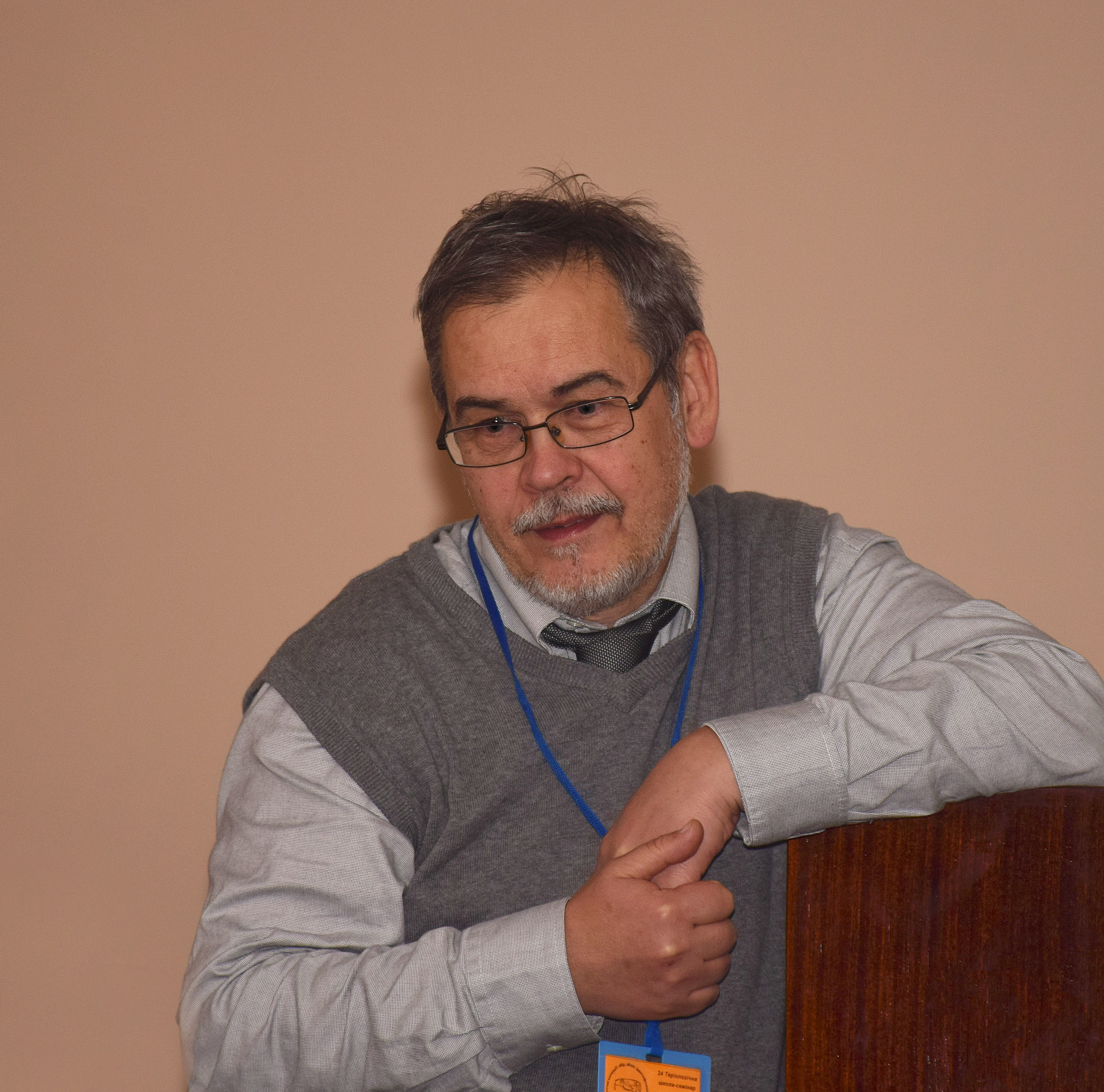 Dr. Igor Zagorodniuk during XIV Theriological School in Odesa (October 2017)